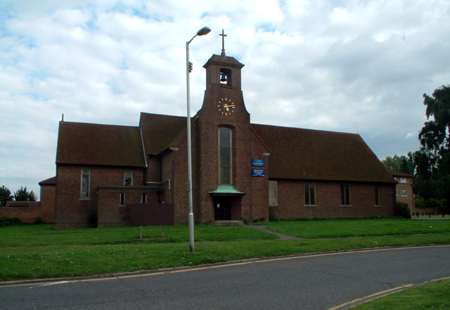 Parish church of St Edward King and Confessor, New Addington, south London (formerly Surrey), seen from the northwest